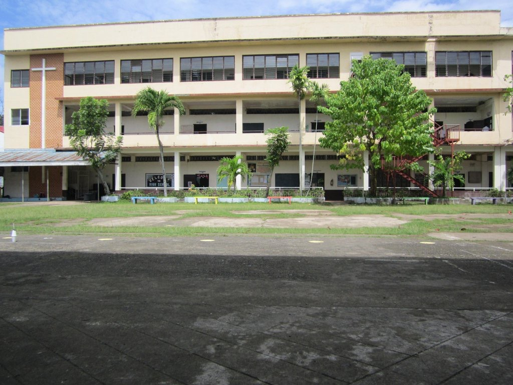 The SMAC Annex High School Building